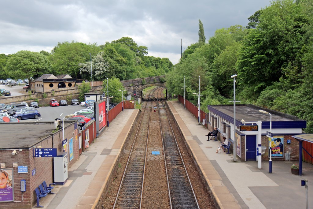 Marple railway station looking south from the footbridge.